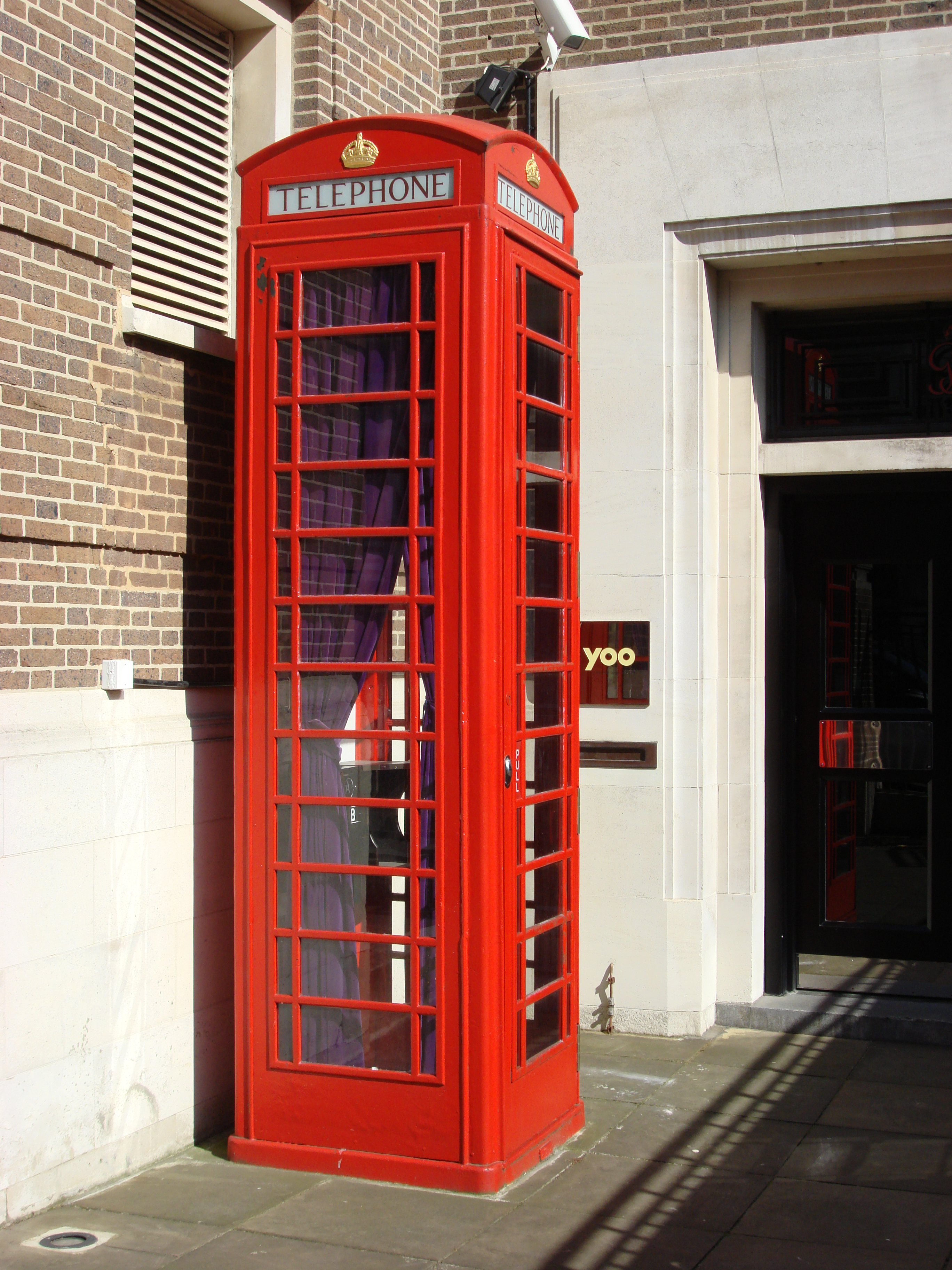 Tall Phone Box Outside the Yoo development at the old Telephone Exchange building in Maida Vale.Two K6 boxes have been welded together to make a twelve foot giant telephone box.